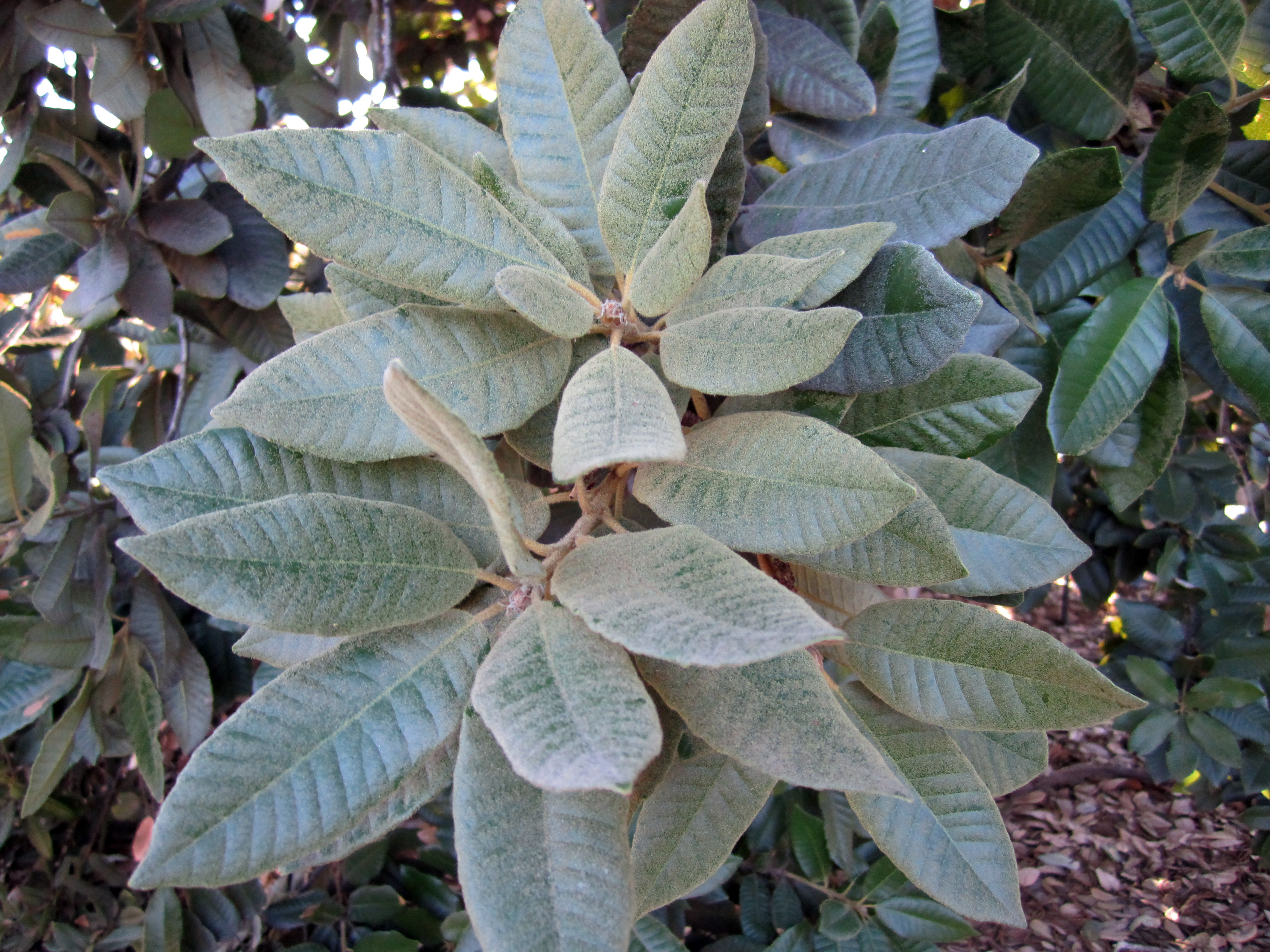 Notholithocarpus densiflorus, formerly Lithocarpus densiflorus — Tanbark Oak. Location: Rancho Santa Ana Botanic Garden, Southern California. Date: 2010-12-01